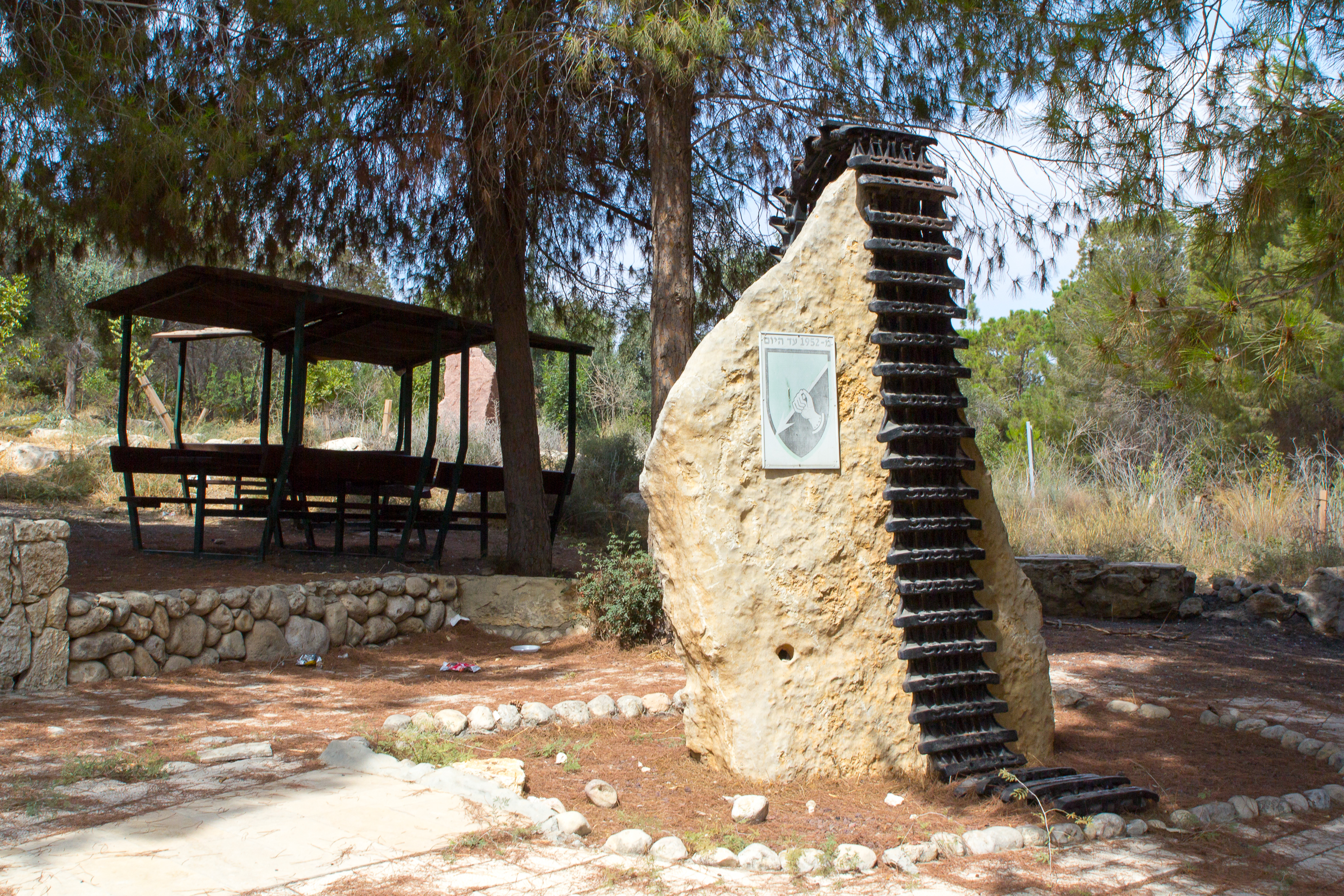 27 Brigade memorial at the Armored Brigades park at the Yad LaShiryon museum in Latrun, Israel